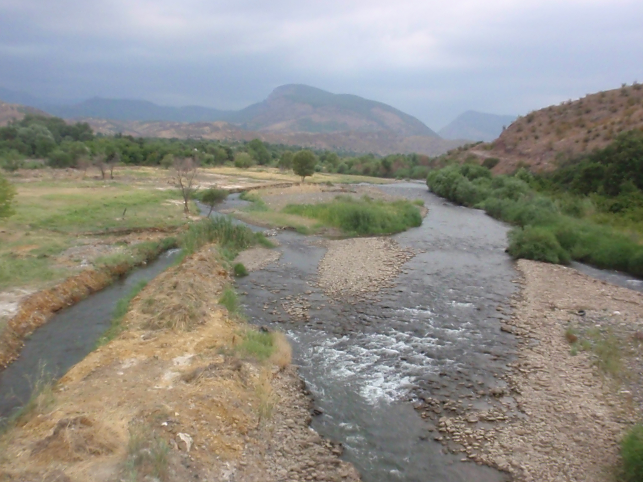 Voghji river in Kovsakan. Location: Kovsakan city, Kashatagh, de facto Nagorno-Karabakh Republic de jure Azerbaijan.